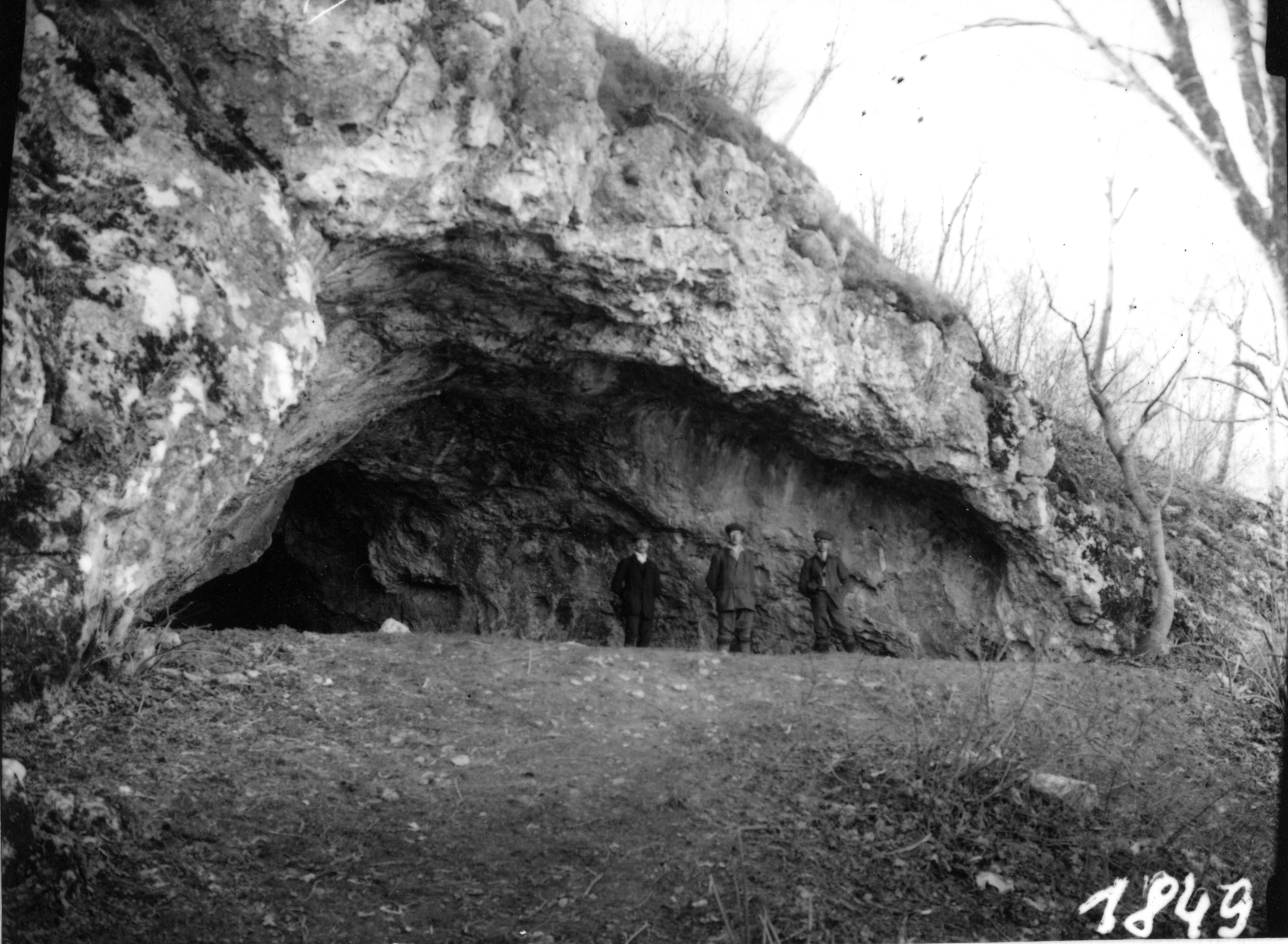 The entrance of Mackó Cave in 1912 (before the excavation).